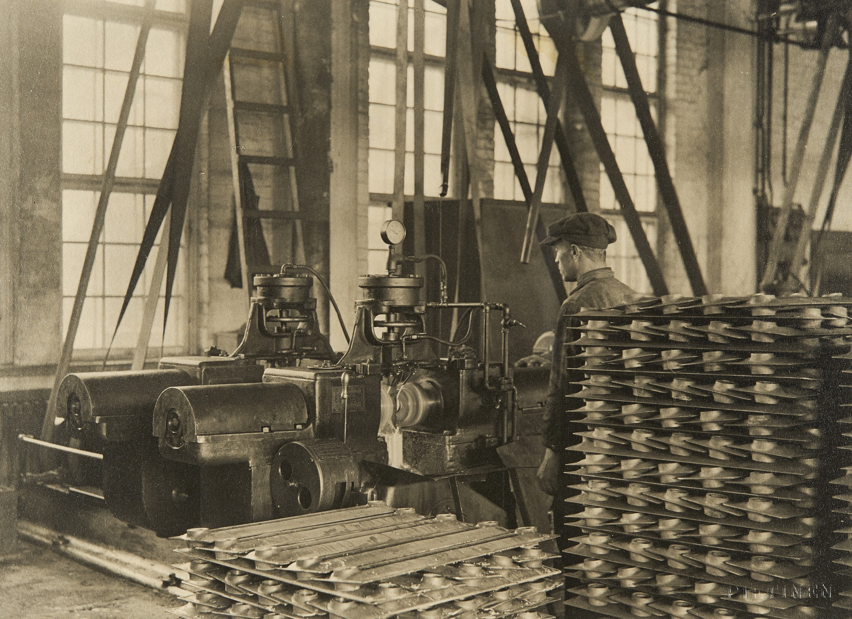 Drilling machine for radiators at Högforsin Tehdas Oy